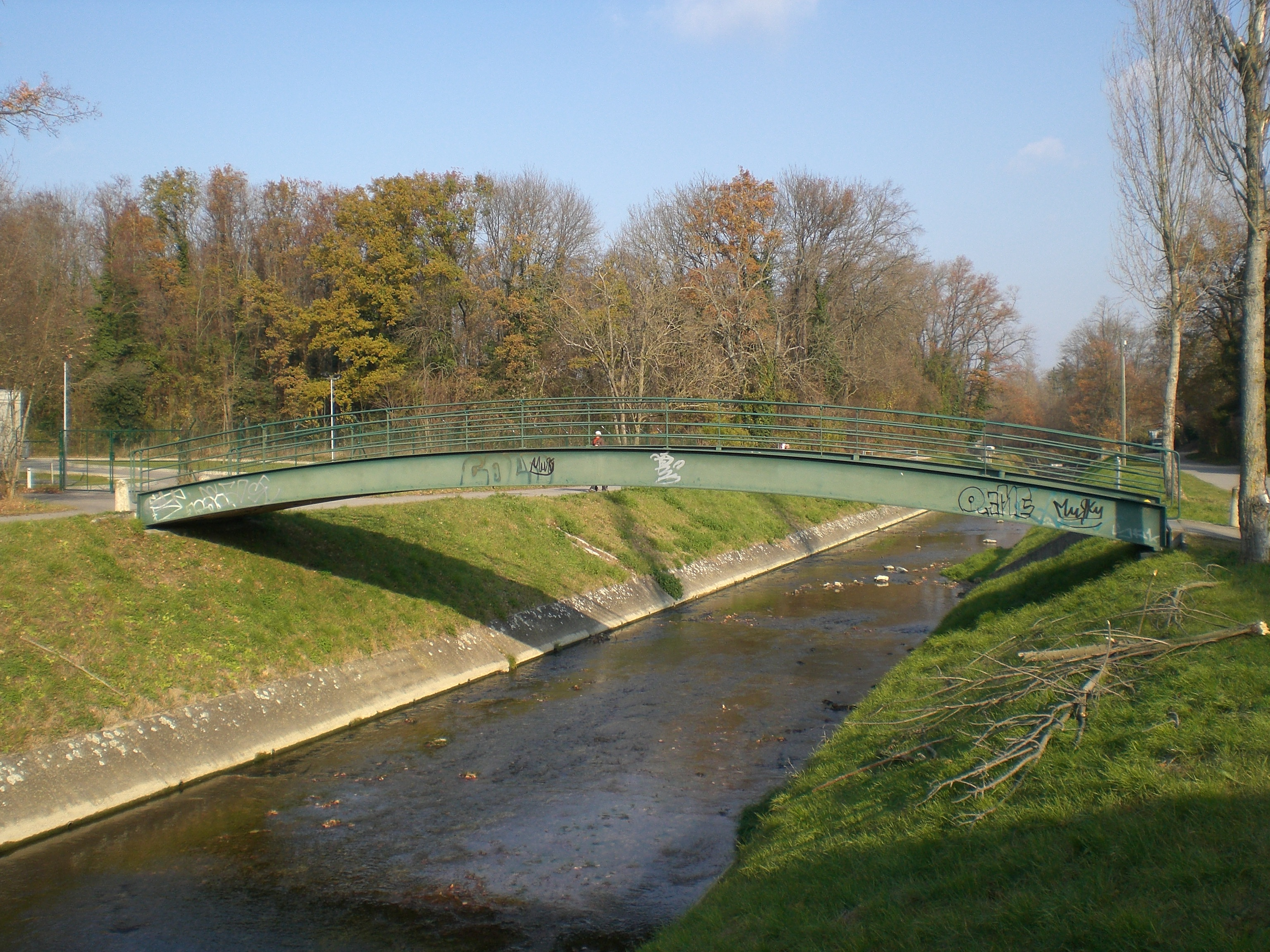 Pedestrian Bridge on top of the Aire river